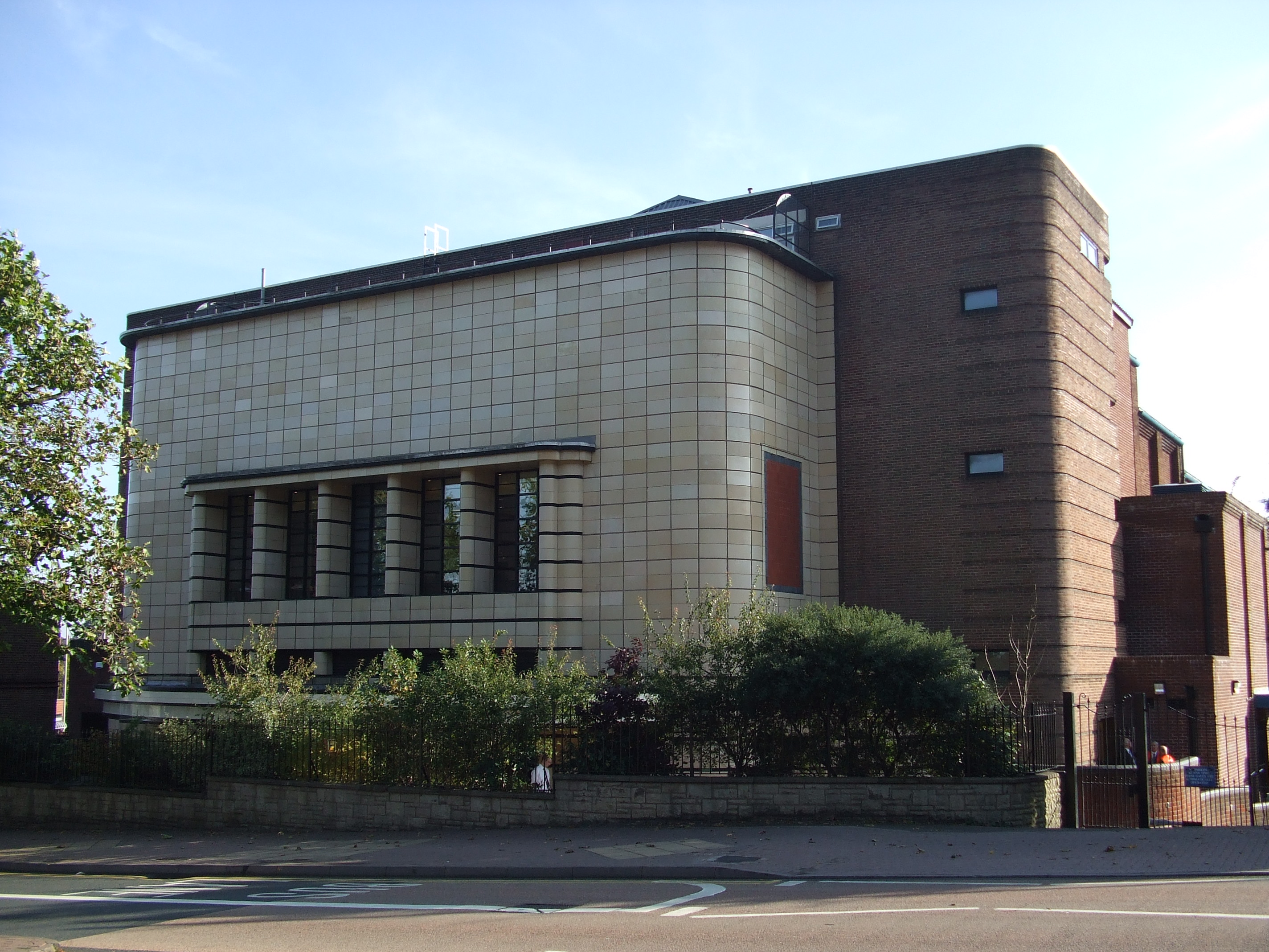 The former Odeon Cinema in Dudley that opened in 1937. It is now a church for the Jehovah's Witnesses, and in 2000 was made a Grade II Listed Building.